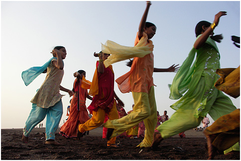 Young girls playing 'garba' on the Bhaat beach. see the picture-documentary of the whole religious ceremony at